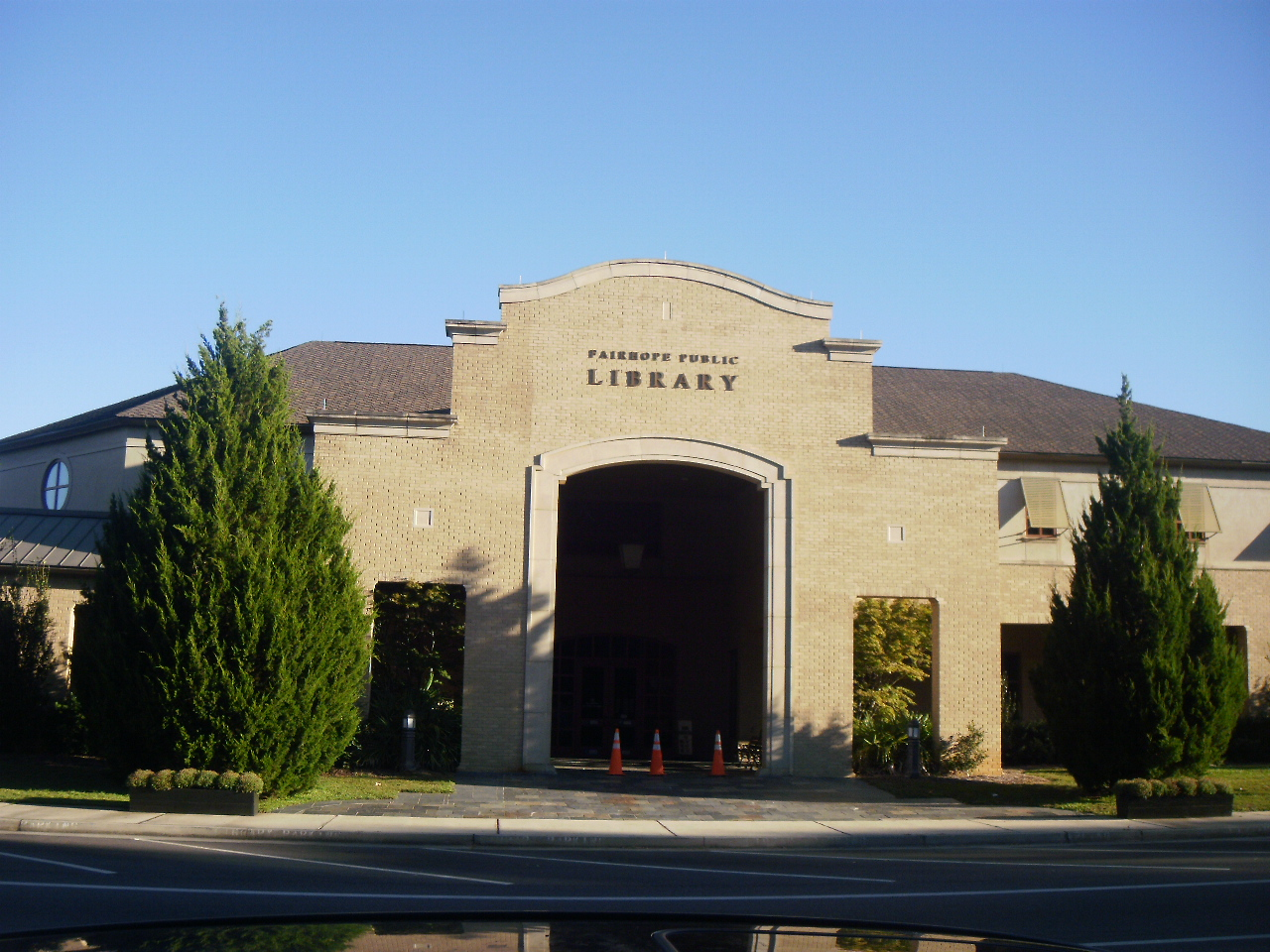 Public Library of Fairhope,Alabama